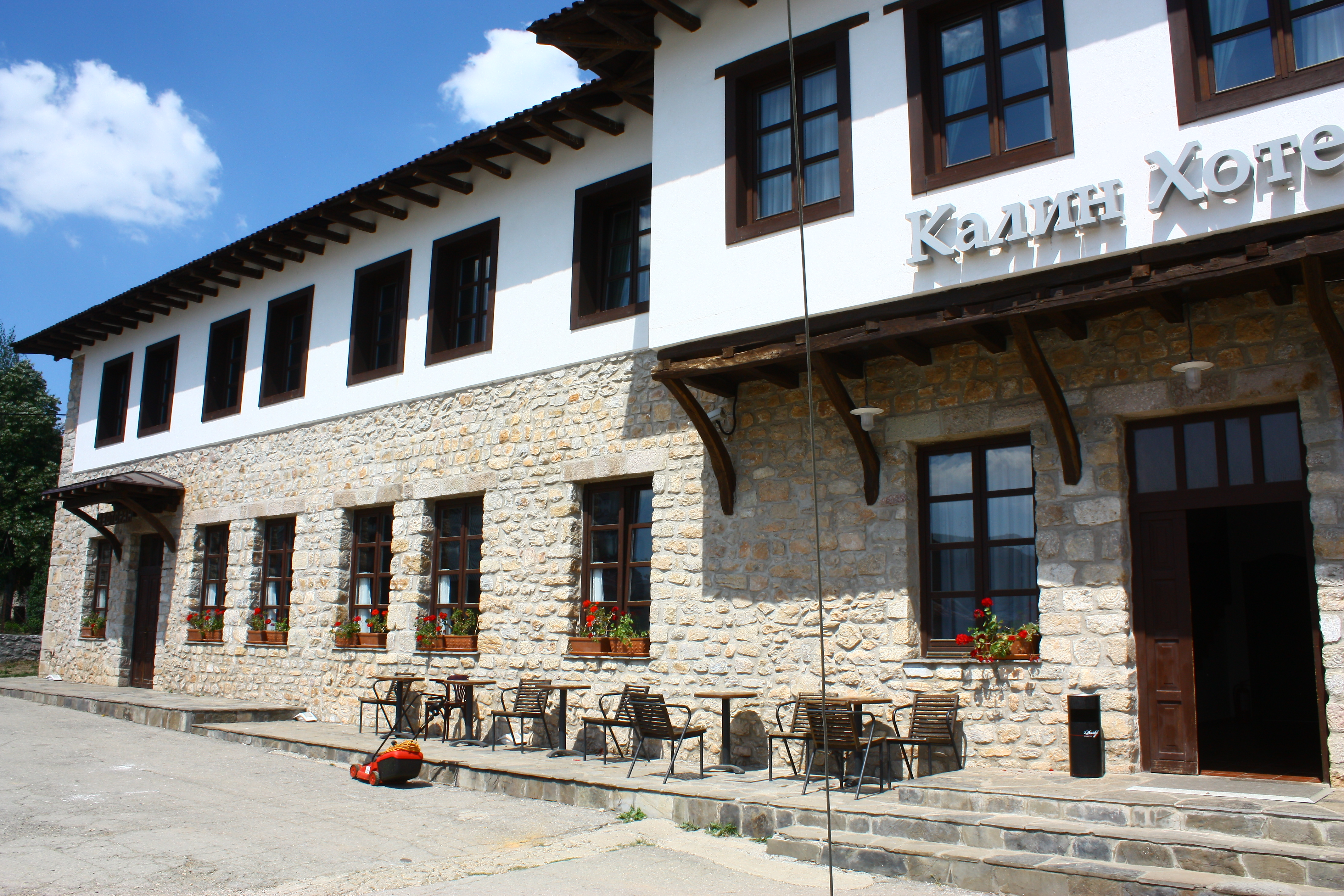 Kalin Hotel in Lazaropole, Macedonia This image is uploaded as part of the picture contest Wiki Loves Cultural Heritage in Macedonia 2013. English | македонски | +/−